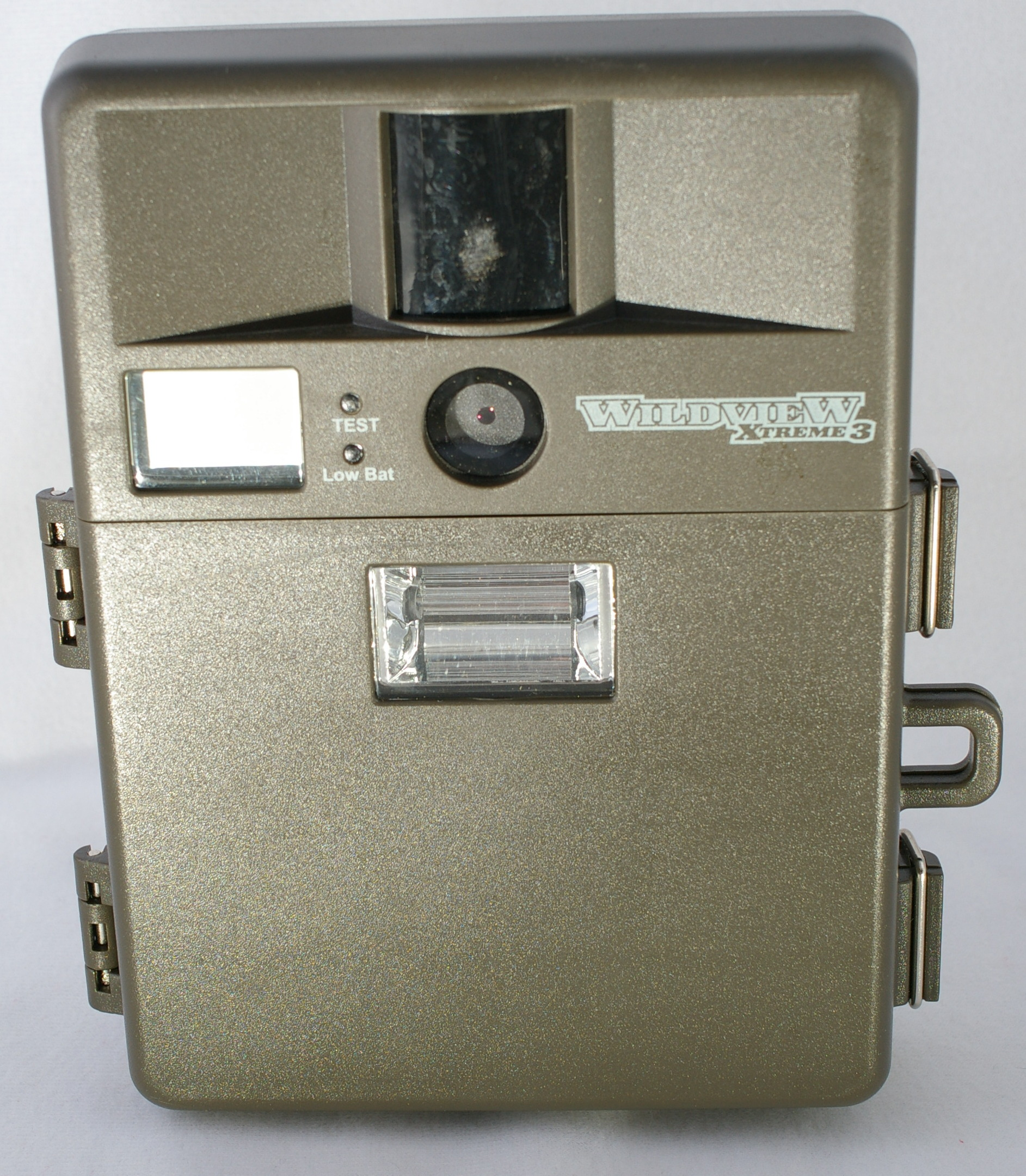 A camera trap, for taking pictures of game on trails. This model is for hunting. Motion detector on top, lens in the middle, flash on the bottom, with a little LCD for showing how many pictures taken/left on the left.